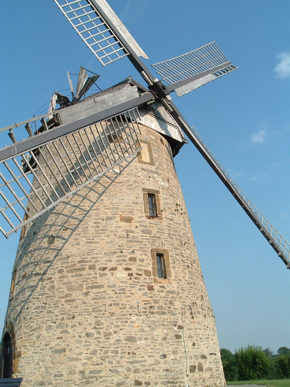 Windmill in town of Enger, District of Herford, North Rhine-Westphalia, Germany. This is a photograph of an architectural monument.